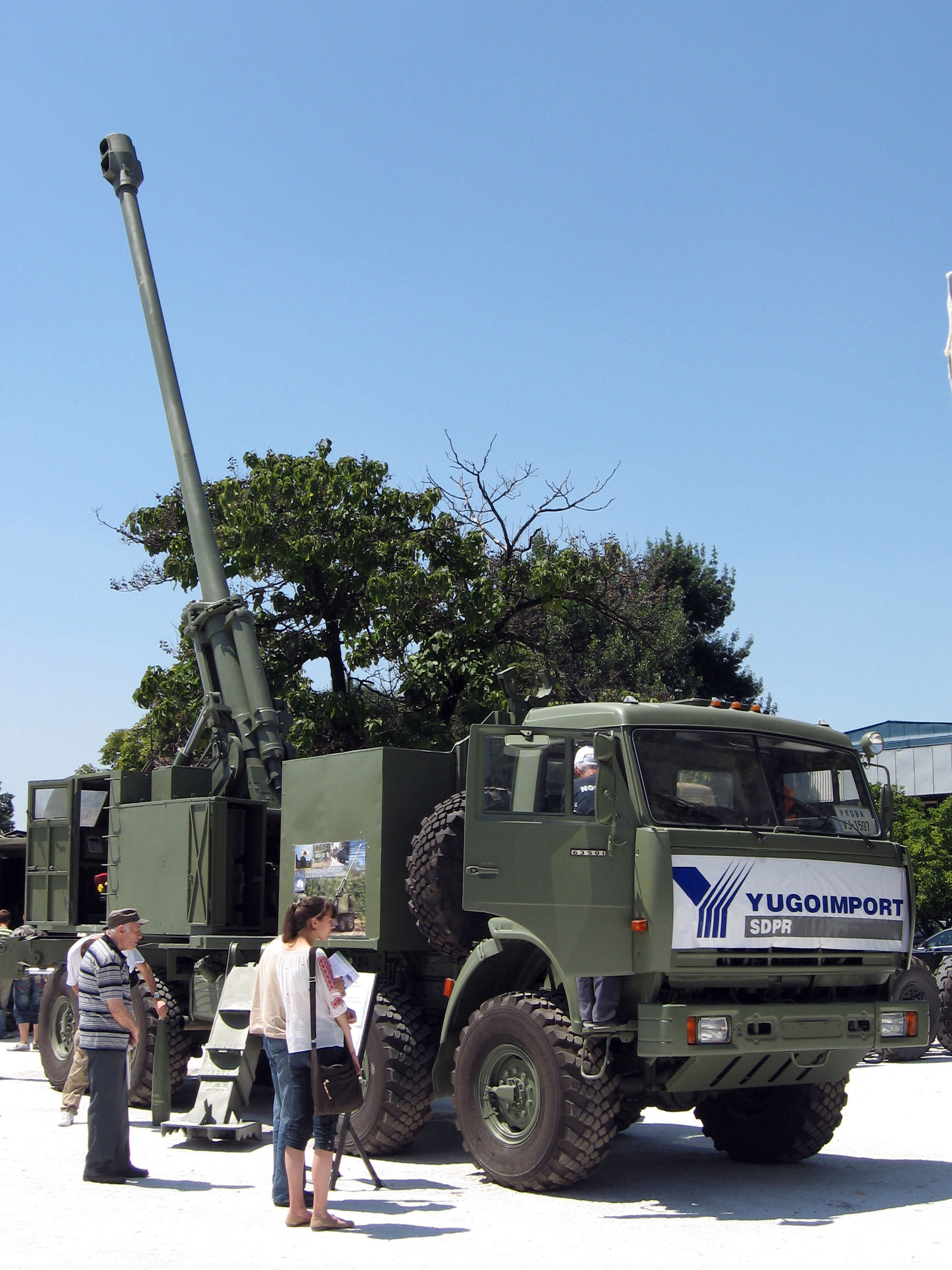 A Nora B-52 self-propelled howitzer of the Serbian Army based on a FAP-truck.